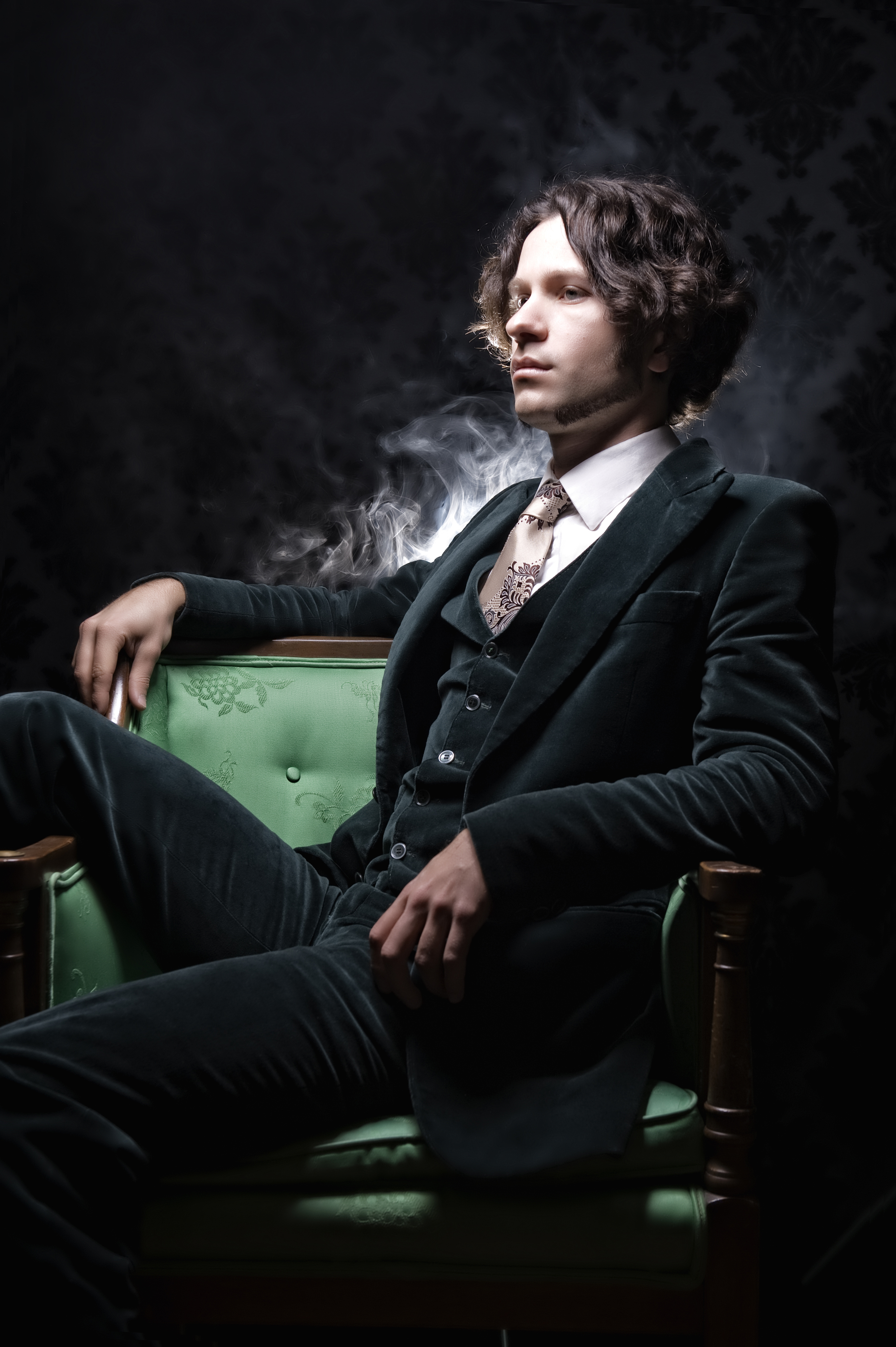 Artist Moldover sits in a chair wearing a green velvet suit.